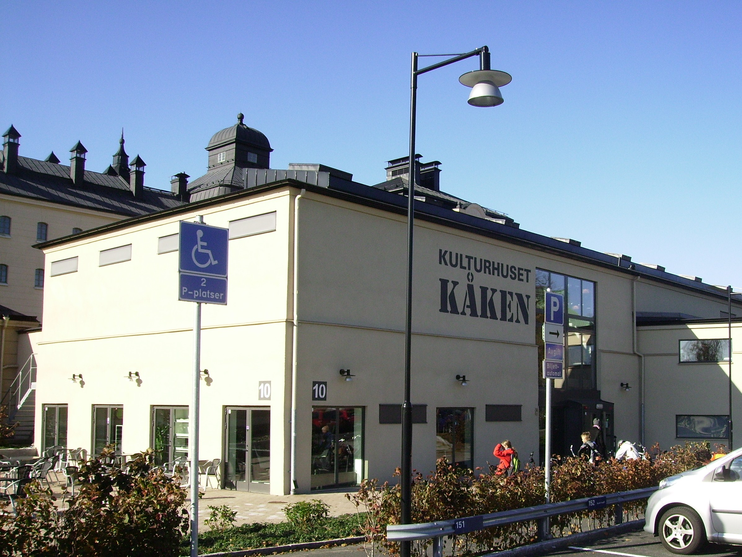 Picture of Kulturhuset Kåken (library) in Göteborg